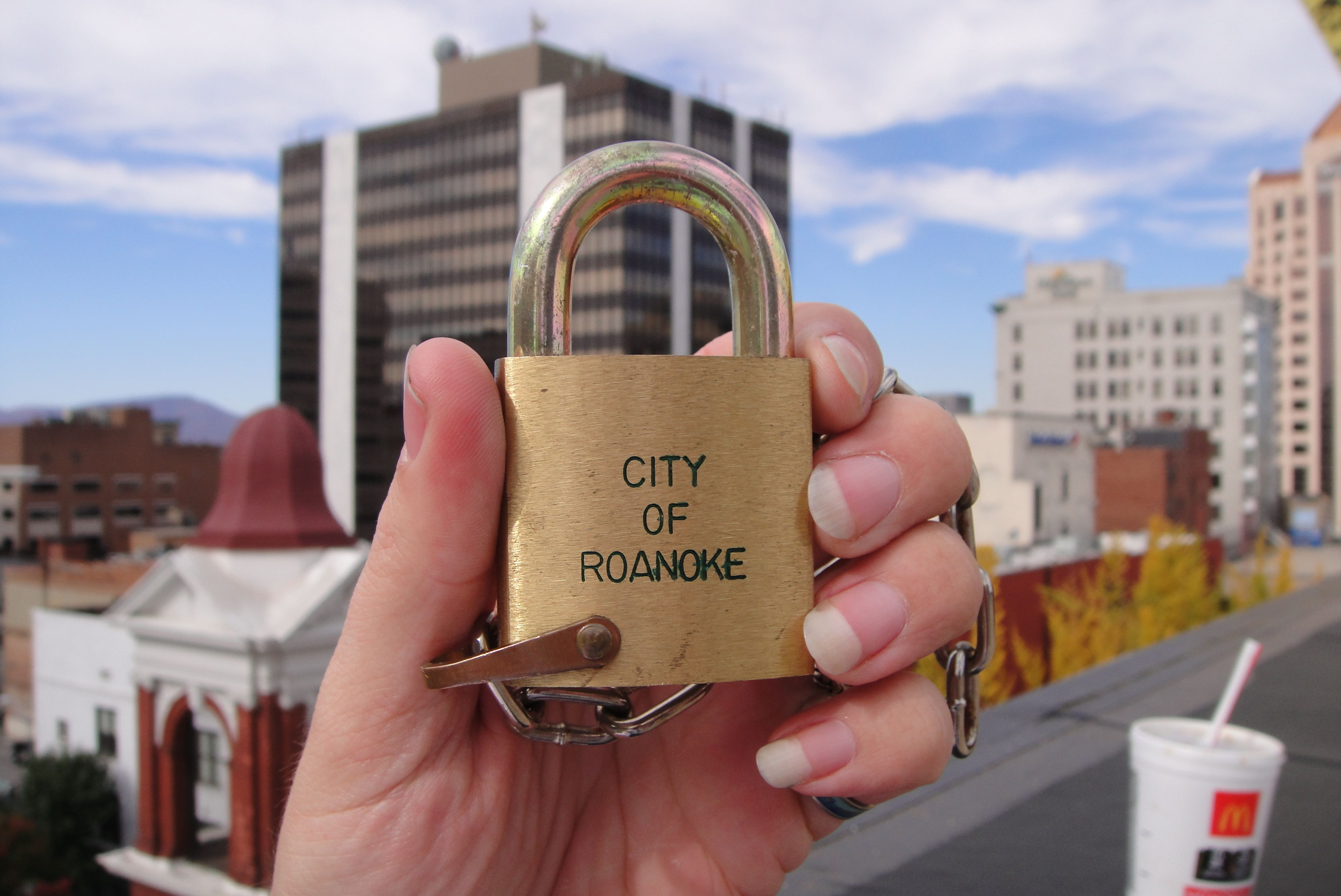 This is a Best interchangeable core padlock. This model is a 4B72. Best made logo locks to customer specific requests. This is an antique "city or roanoke" best lock